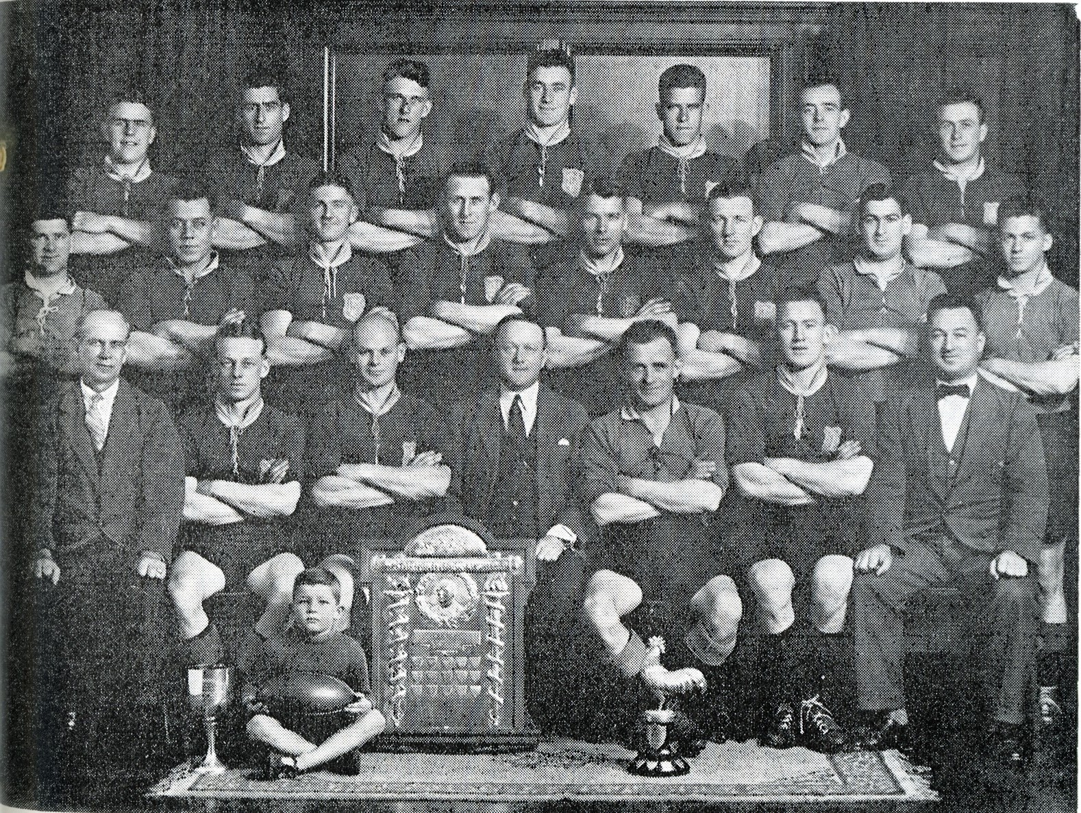 Marist Rugby Laague Team 1932 Roope Rooster and Stormont Shield Winners